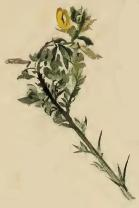 Stainton’s Natural History of the Tineina (1855–1873): Coleophora genistae sprig of Genista anglica with mined leaves